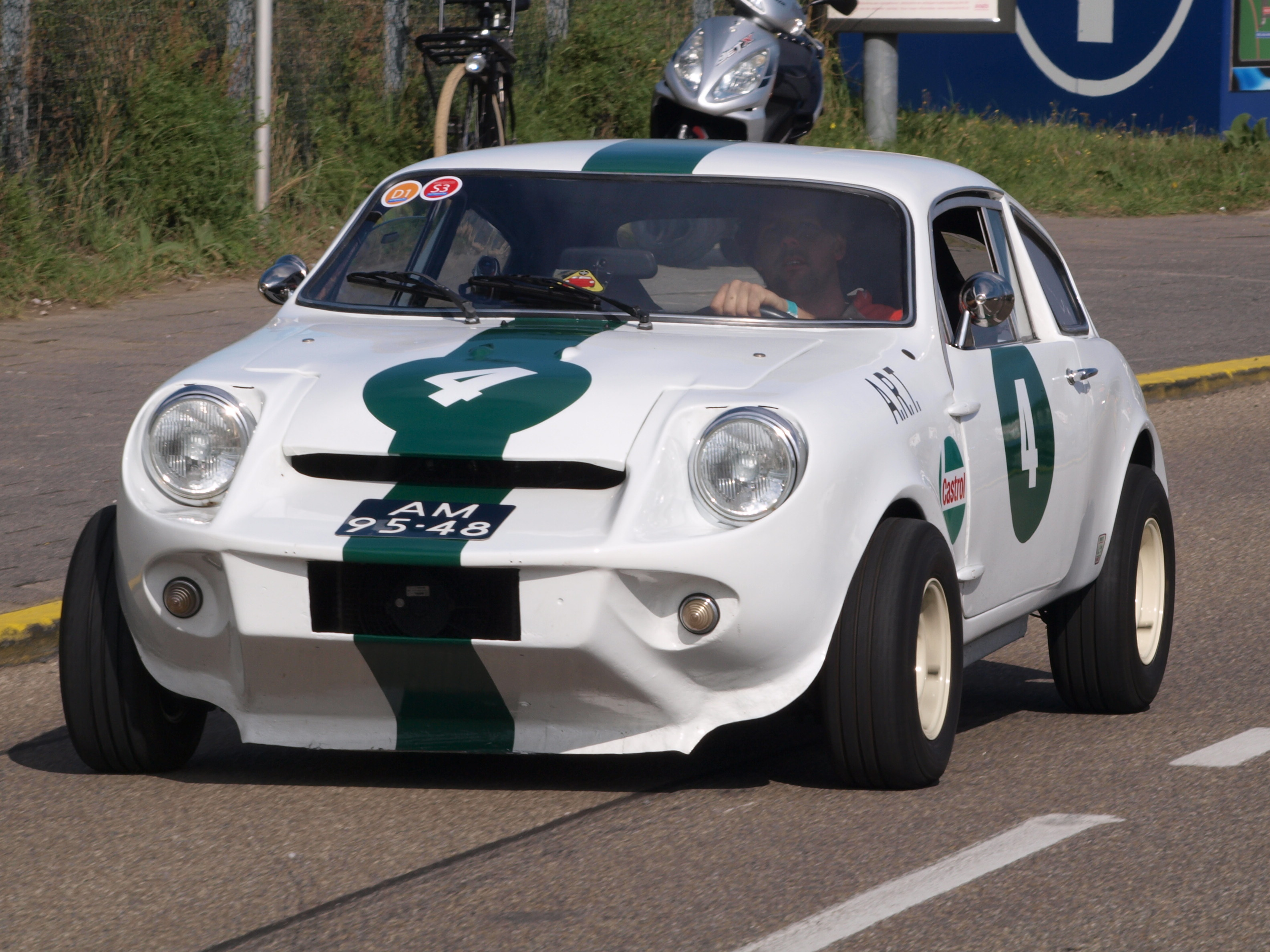 Photographed at the Nationaal Oldtimer Festival Zandvoort 2010, The Netherlands.